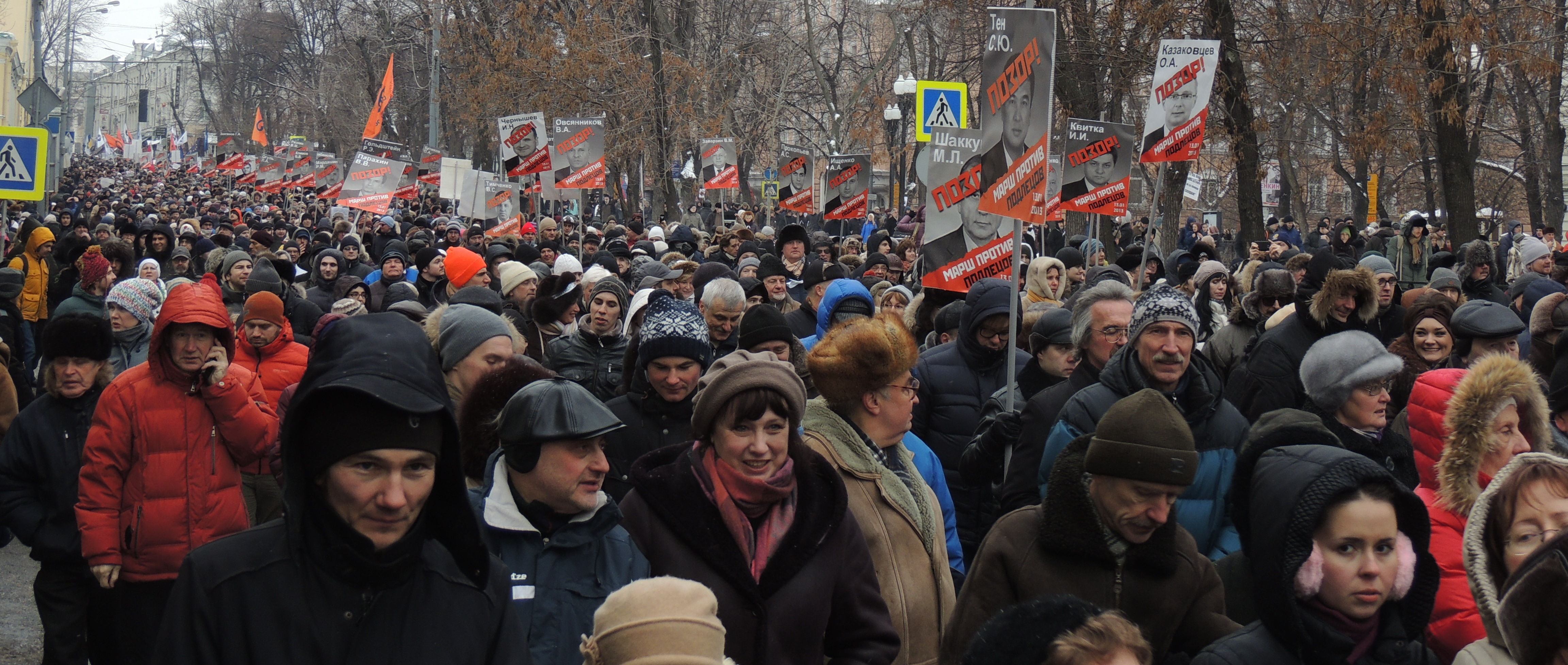 Moscow rally 13 January 2013 Petrovsky Boulevard